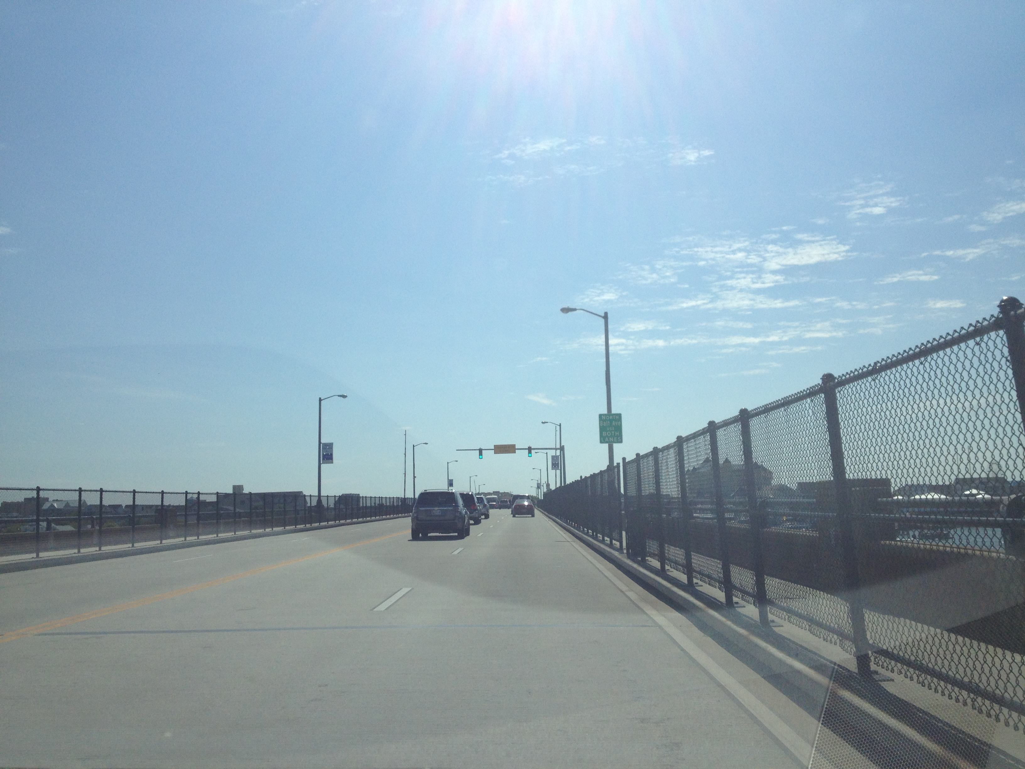 Eastbound U.S. Route 50 on the Harry W. Kelley Memorial Bridge over the Sinepuxent Bay in Ocean City, Maryland.